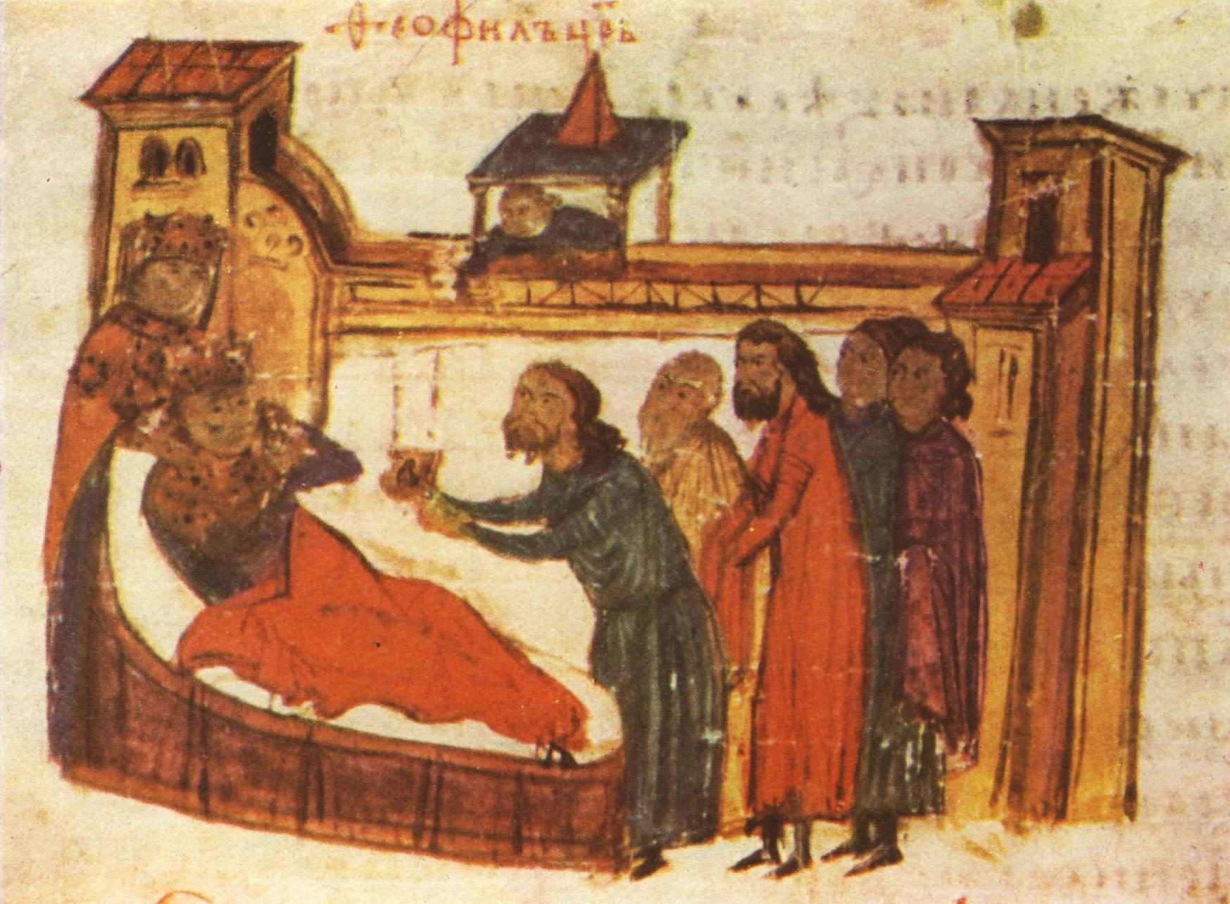 Miniature 56 from the Constantine Manasses Chronicle, 14 century: The death of emperor Theophilos.